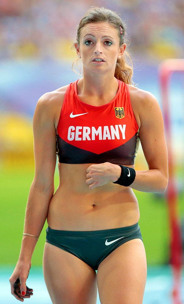 German pole vaulter Kristina Gadschiew at 2013 World Championships in Athletics